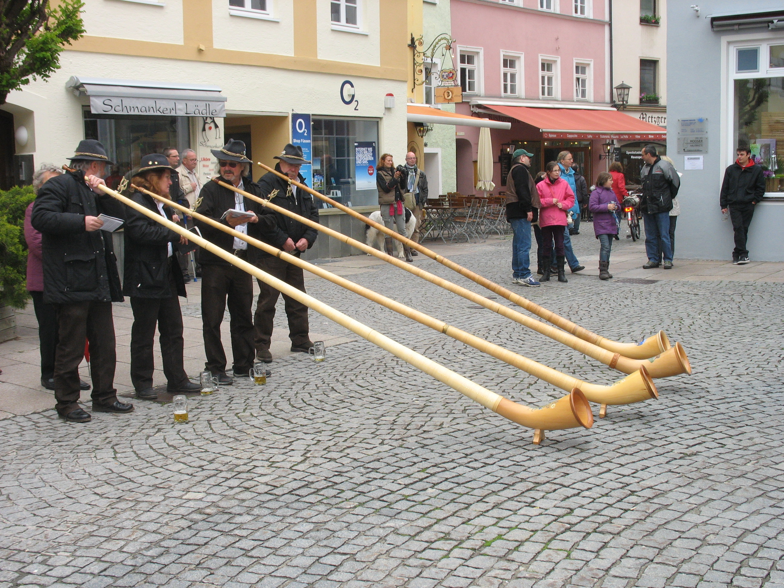 Alphorn players